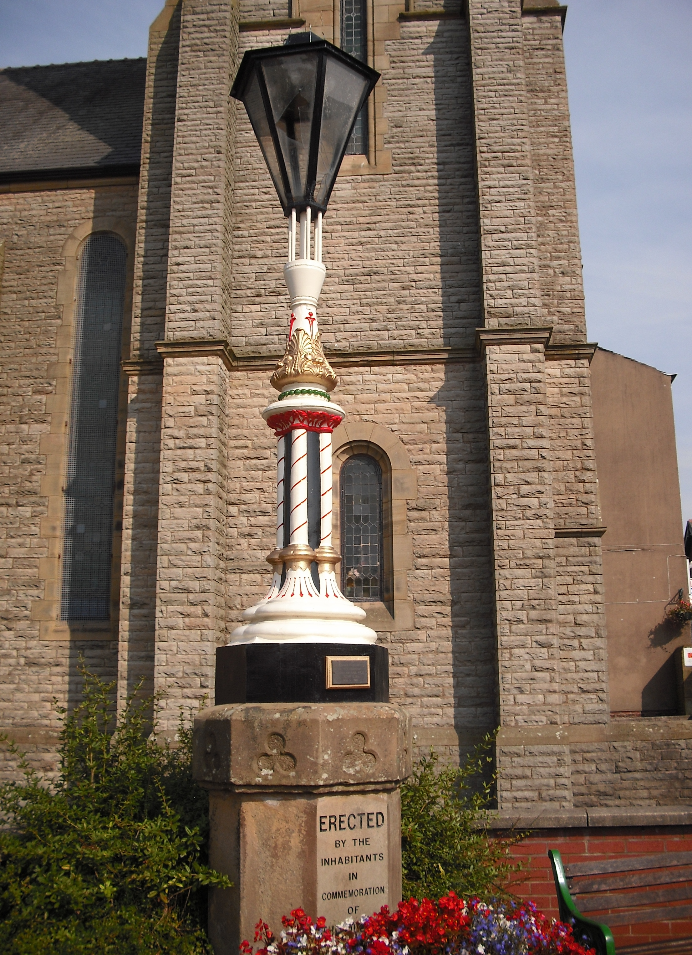 Victoria Memorial (detail), Poulton Street, Kirkham, Lancashire